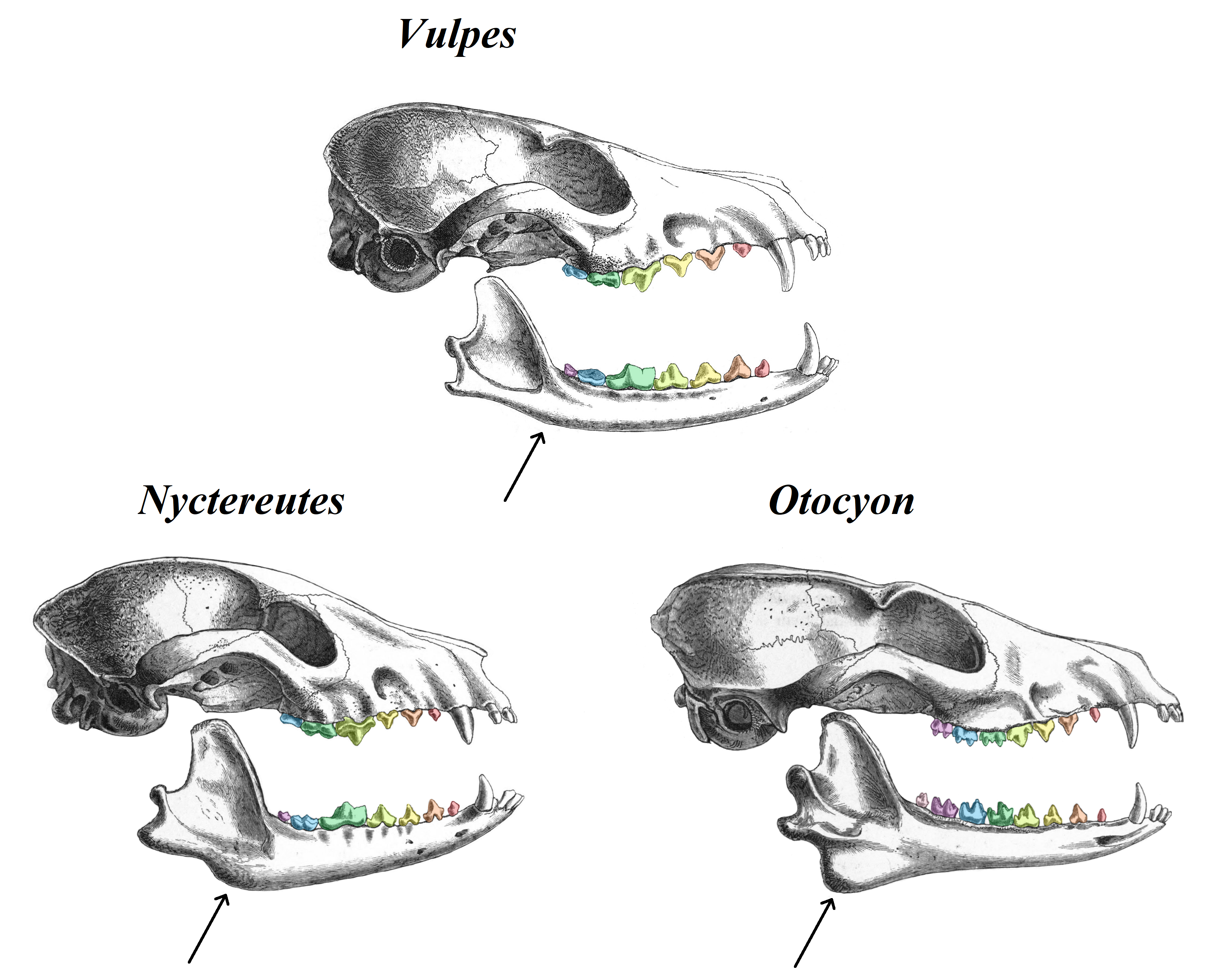 An illustration of vulpine skulls with colour coded dentition and subangular processes indicated